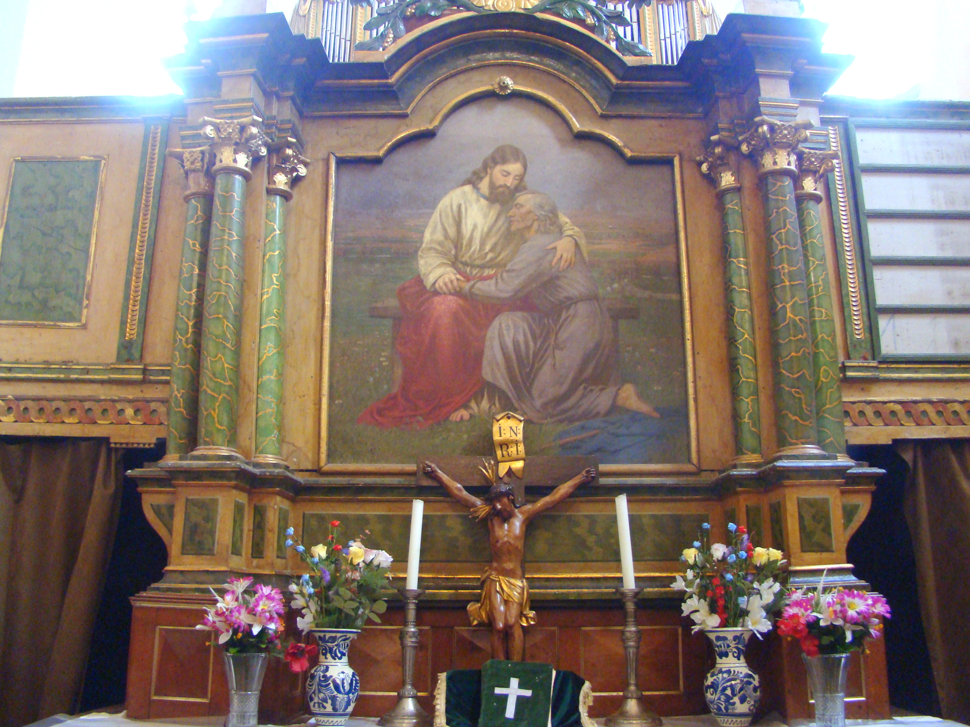 Lutheran church in Feldioara, Brașov County, Romania